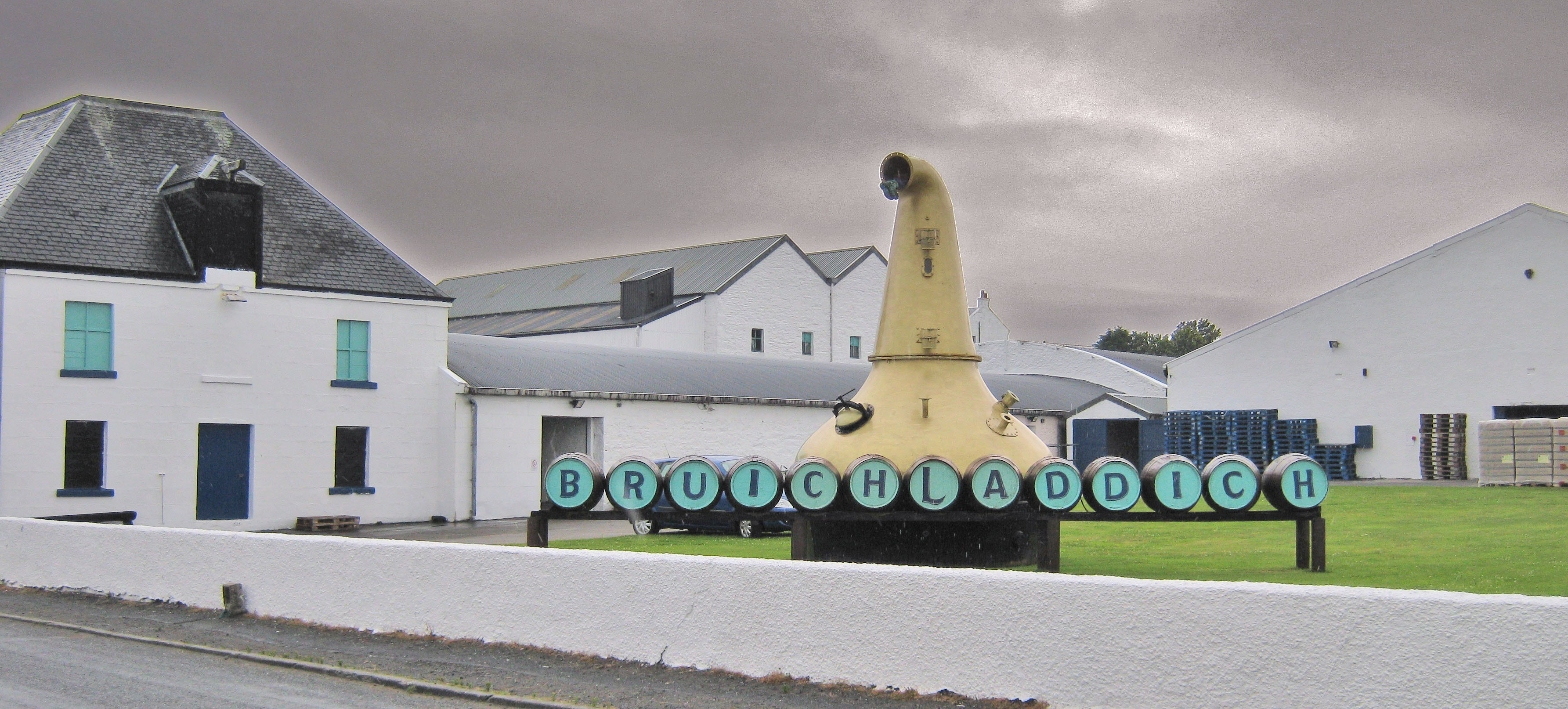 Bruichladdich Distillery